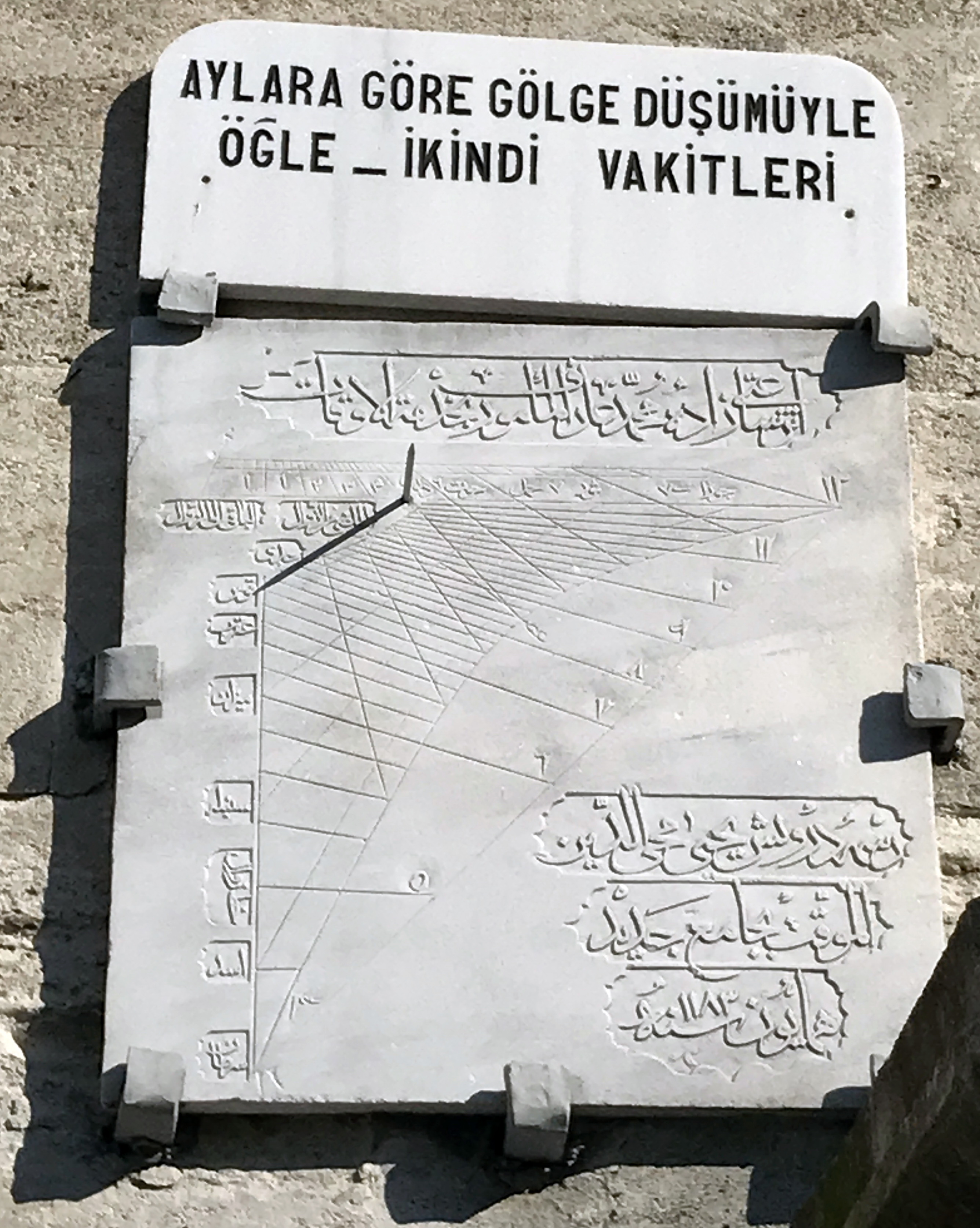 Mihrimah Sultan Mosque (built 1548), is an Ottoman mosque located in the historic center of the Üsküdar municipality in Istanbul, Turkey. It is the first of two mosques built by Mihrimah Sultan, daughter of Sultan Suleiman the Magnificent and wife of Grand Vizier Rüstem Pasha. It was designed by Mimar Sinan and built between 1546 and 1548.